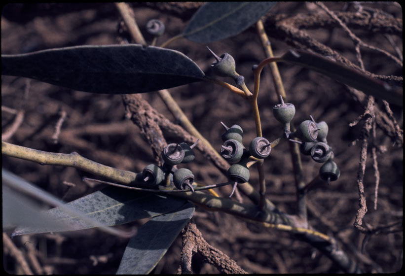 Fruit of Eucalyptus yalatensis near Eucla, Western Australia